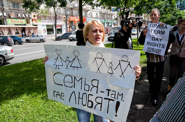 Moscow Pride 2010